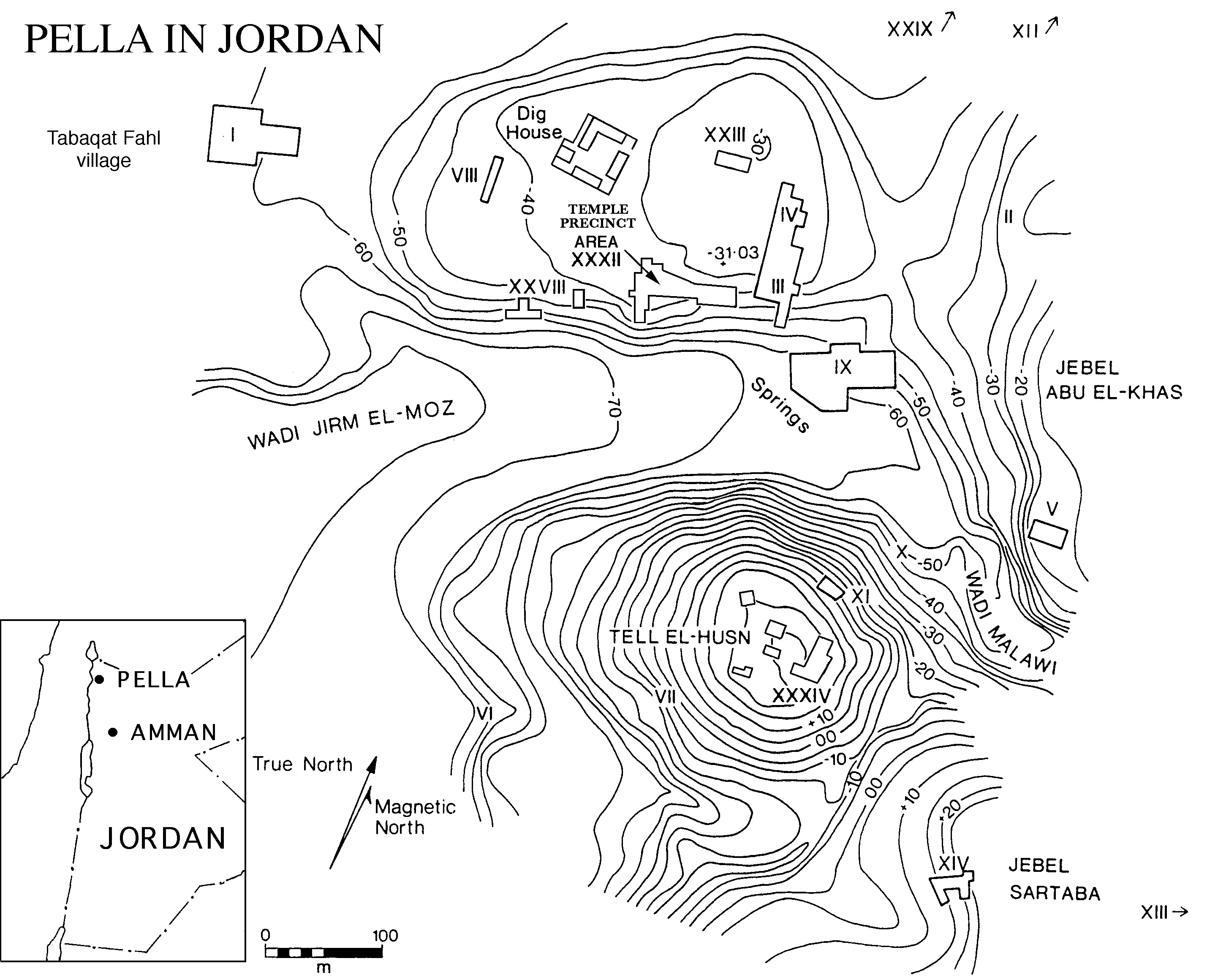 Contour plan of the site of Pella in Jordan. The location of the Migdol Temple precinct is shown on the south slope of the main Tell.